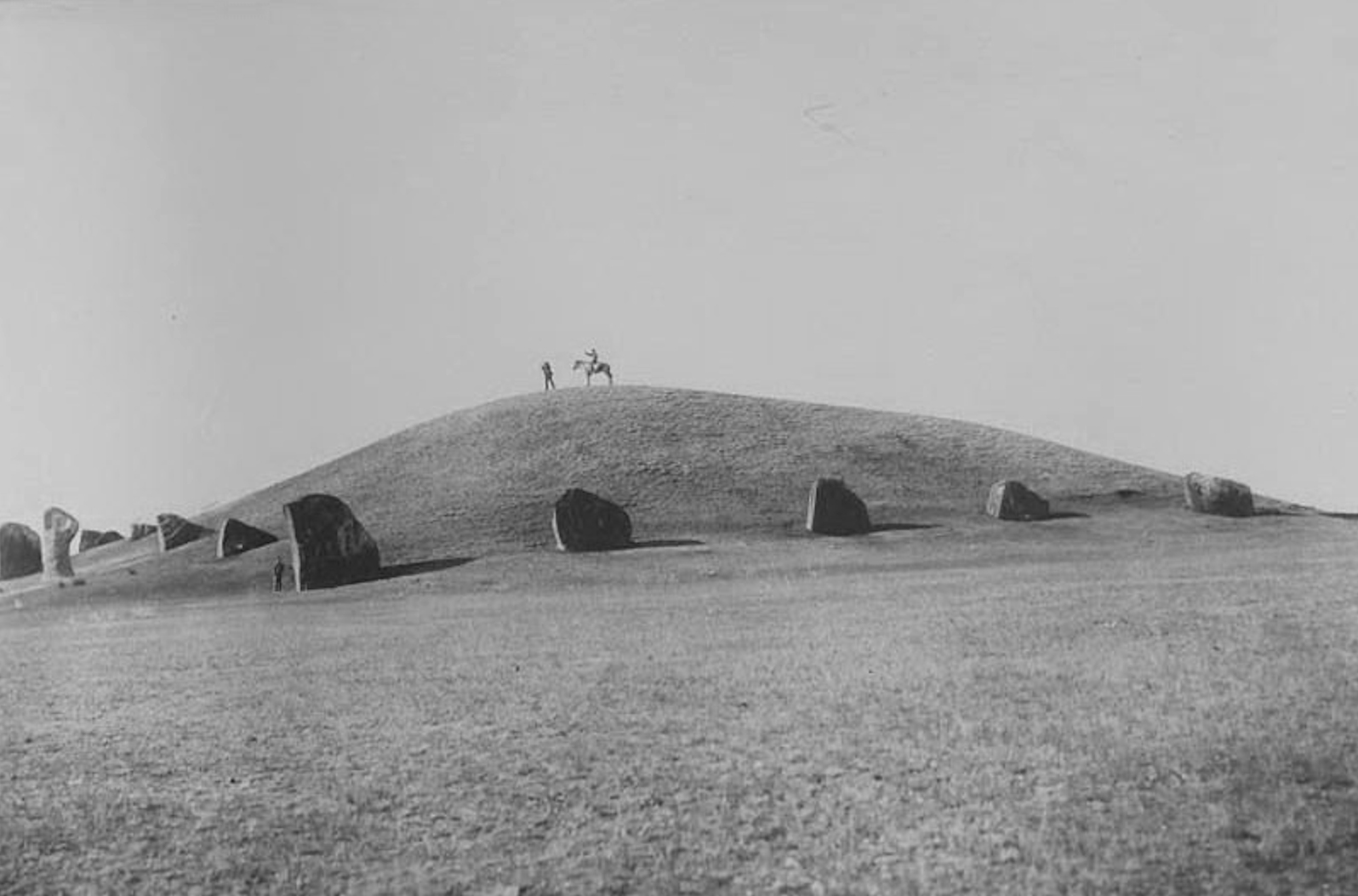 25-30 m height, 500 m diameter Salbyk kurgan before excavation, 5th-4th c.BC. Upper Enisey-Irtysh interfluvial. Photo beginning of 20th c. Salbyk kurgan is surrounded by balbals, and topped with a kurgan obelisk. Sources: Adrianov A.V., "Selections from field notes of kurgan excavations in Minusinsk territory", Minusinsk, 1902-1924, p.56, and Devlet M.A., "Great Salbyk kurgan - a grave of a tribal chief", in History of Siberia, Tomsk, 1976, p. 147